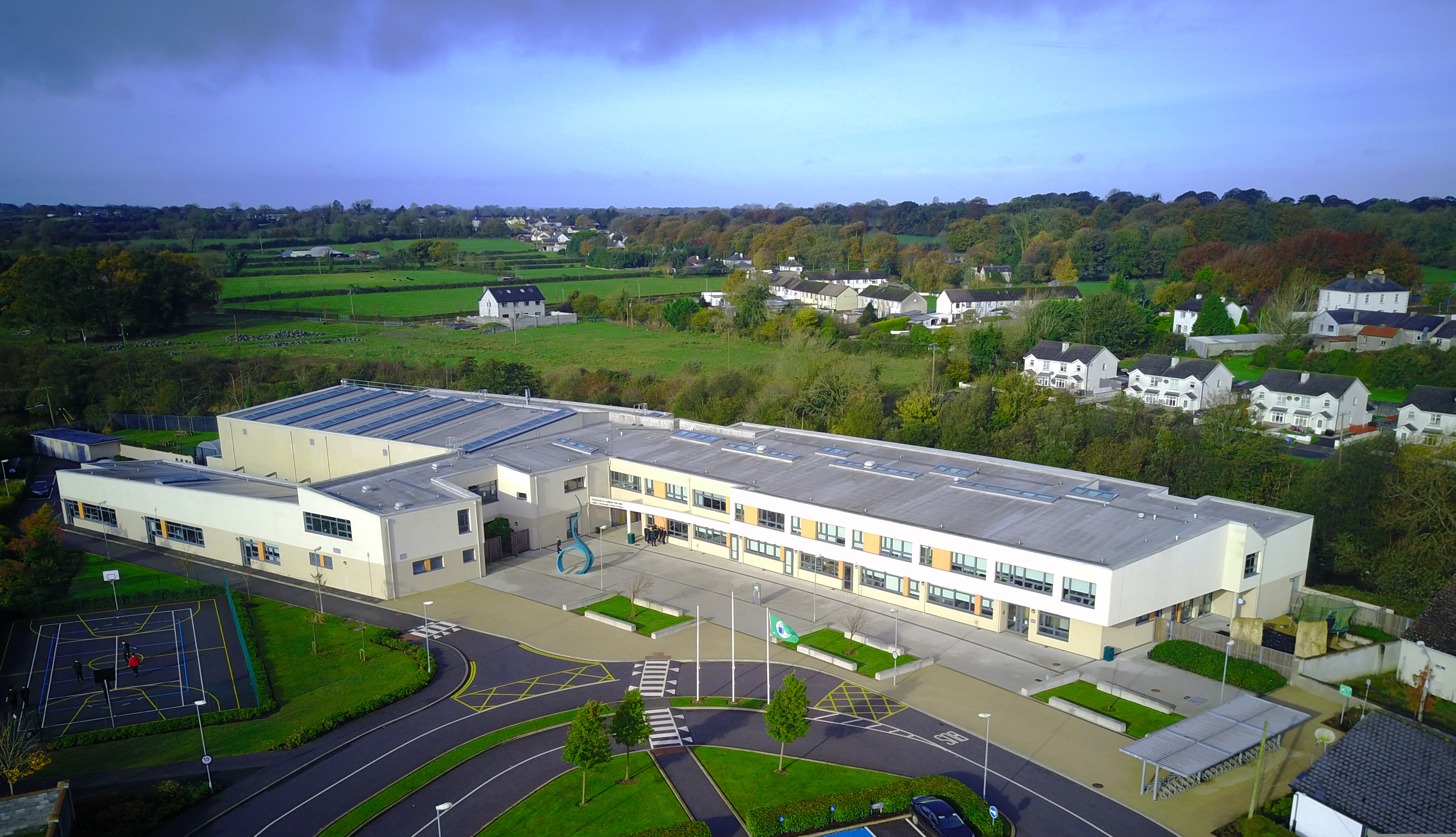 The second level school located in Ferbane Co Offaly.